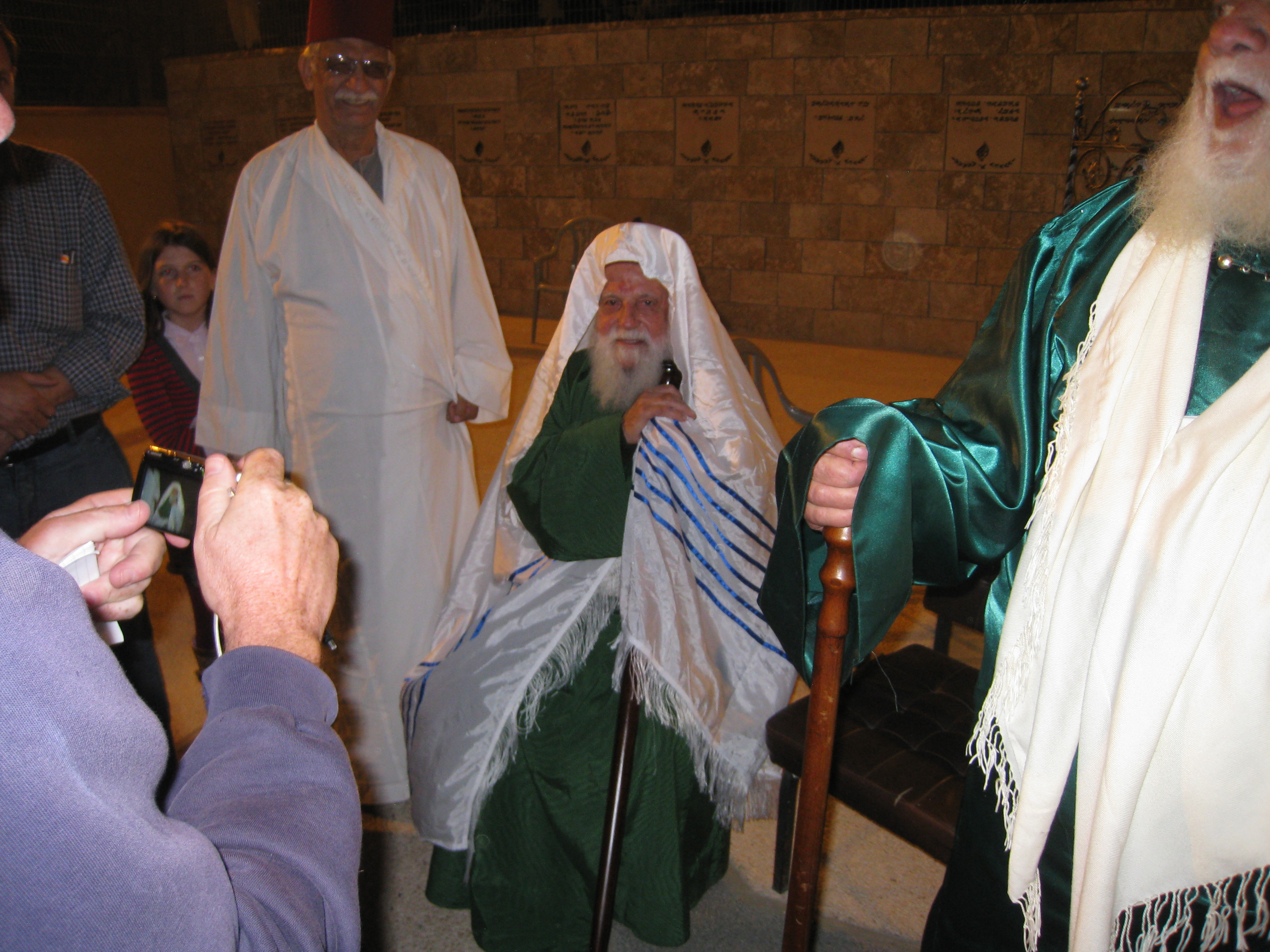 The samaritan high priest in Passover sacrifice ceremony. Mount Gerizim